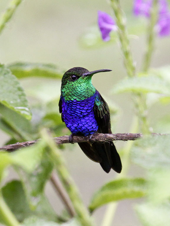 A Fork-tailed Woodnymph near Amazonia Lodge, Manu National Park, Peru.